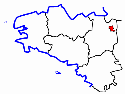 Map for localisazion of cantons of Pays-de-Loire, region in France